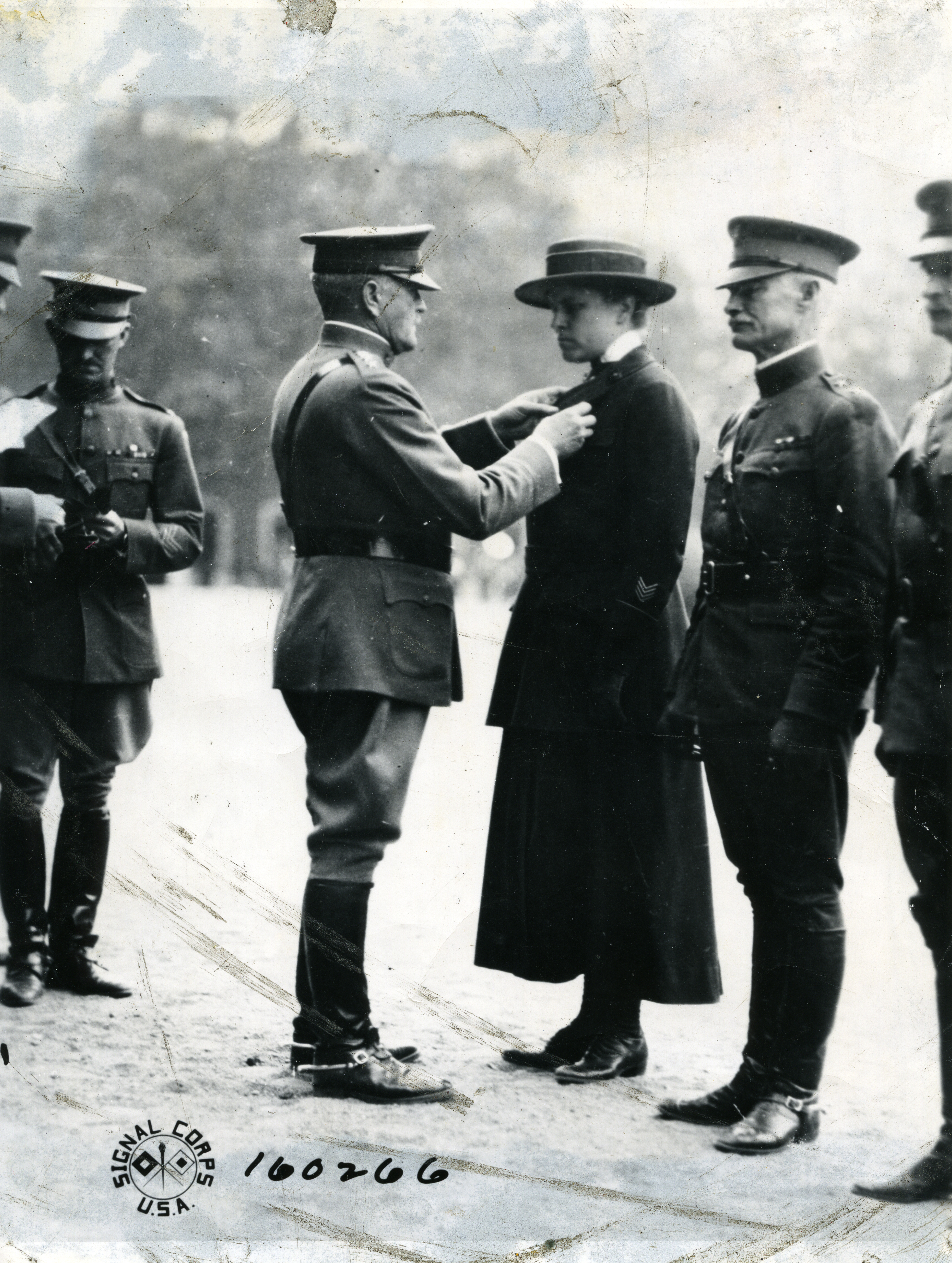 Chief of the Army Nurse Corps Julia Stimson being decorated with the D.S.M. by General J.J. Pershing Tours France First World War